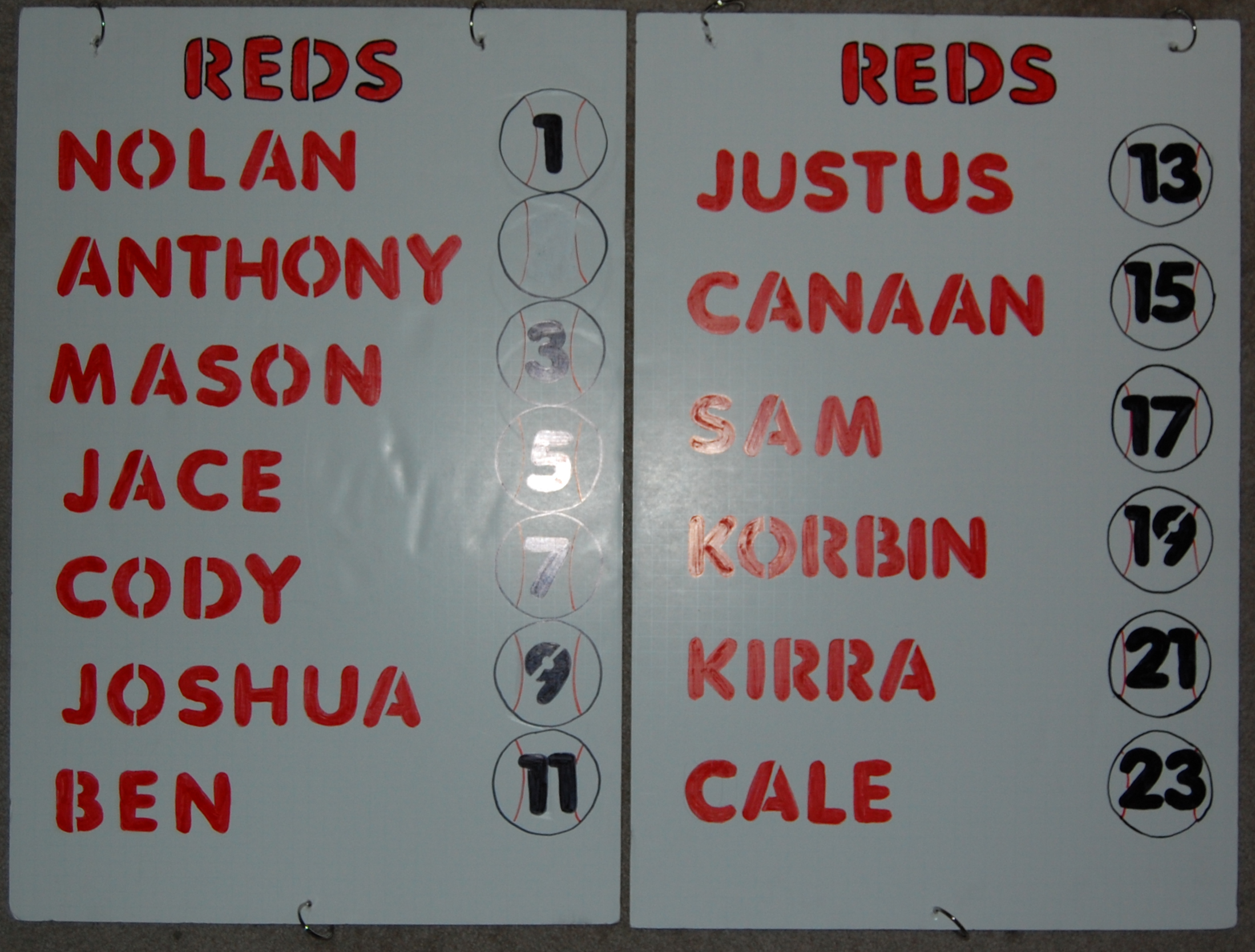 Tee ball lineup that is displayed to the fans so they can cheer players by name. Usually created by the "Team Mom." This sign created by Babette Harmon.